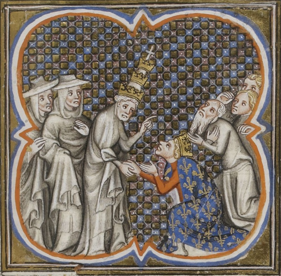 Louis IX meeting Pope Innocent IV at Cluny (June 1248)